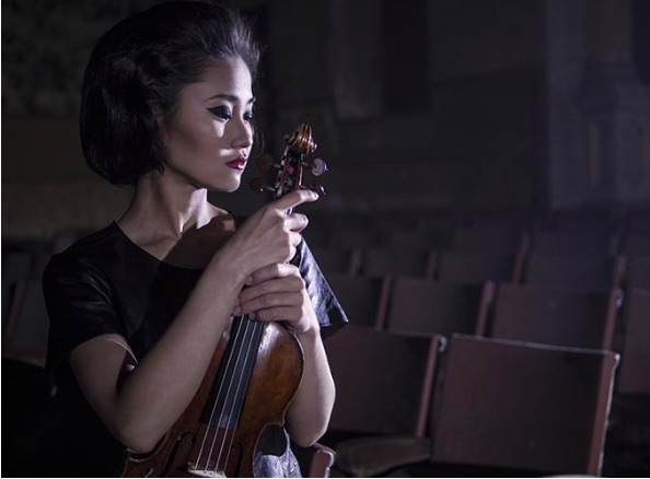 chateau de Franconville Sayaka Shoji with her Racamier Stradivarius